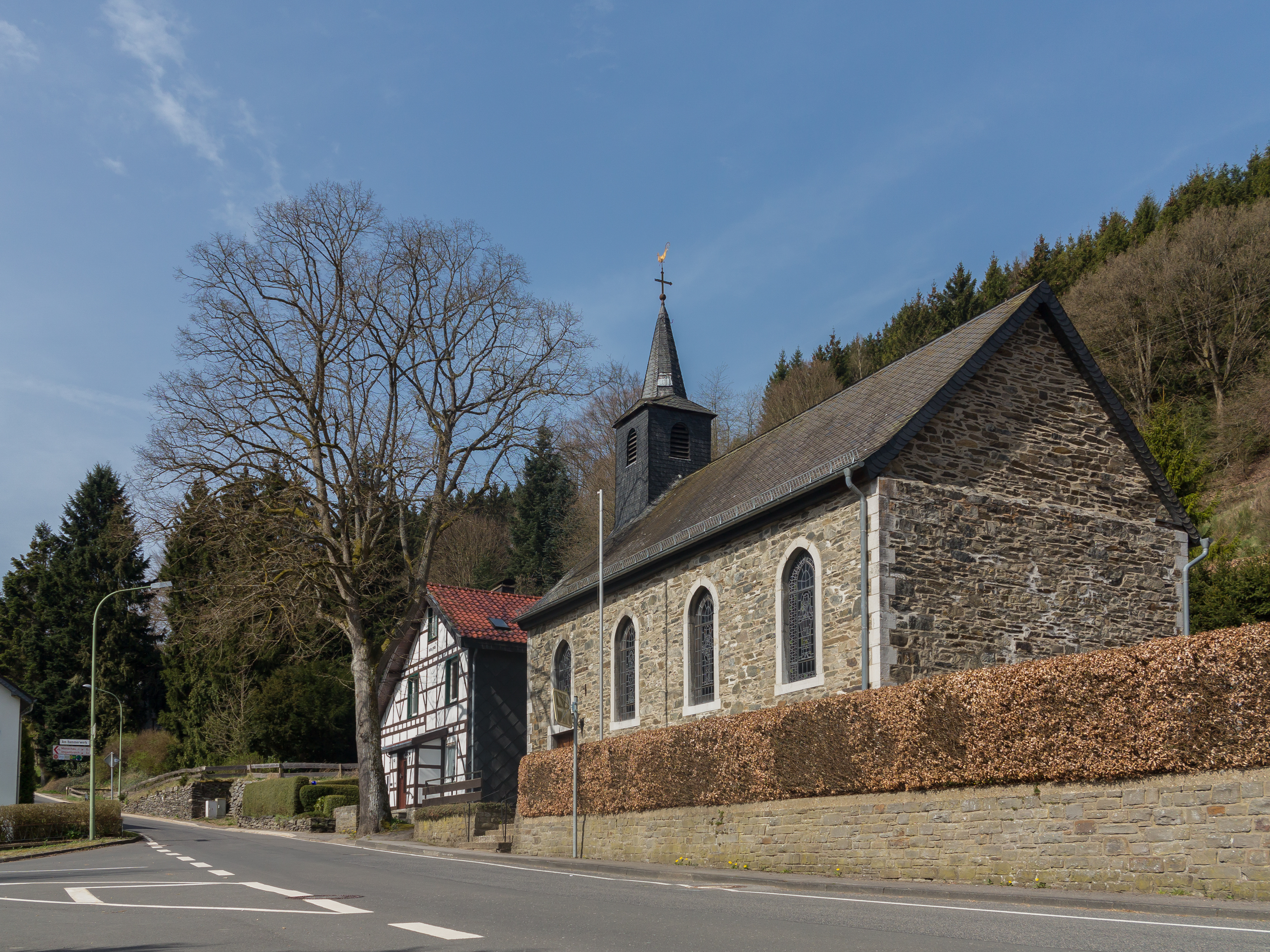 Hammer, quarry-stone churchThis is a photograph of an architectural monument., no. 61